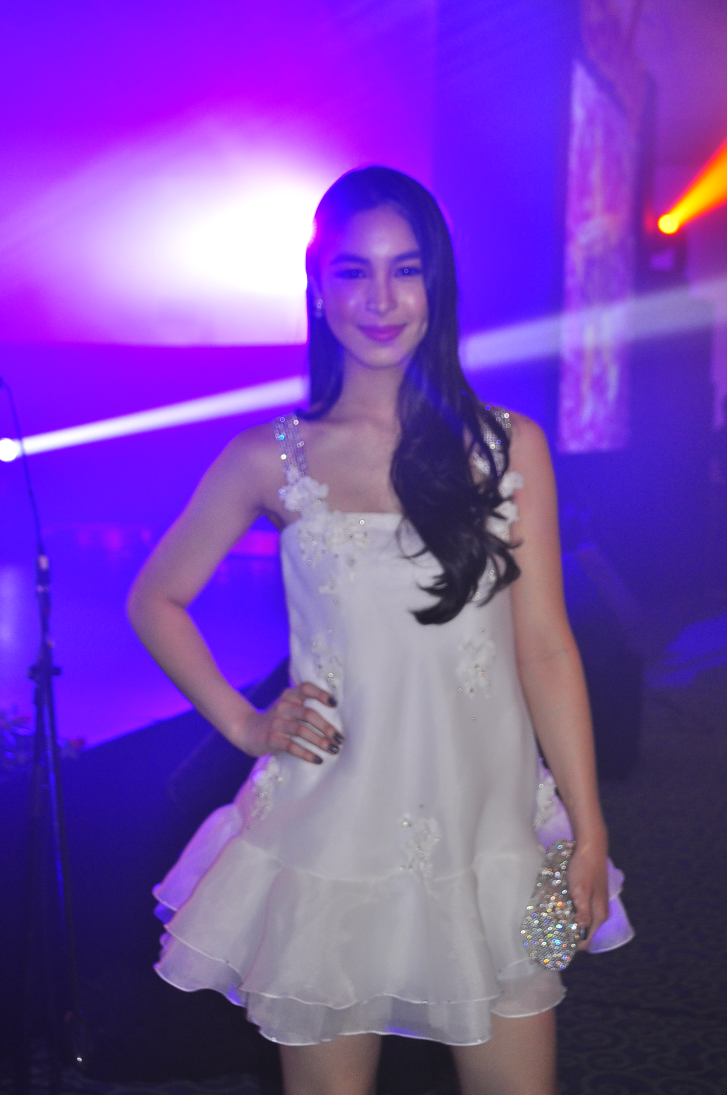 Julia Barretto attending at the 2013 Candy Style Awards.